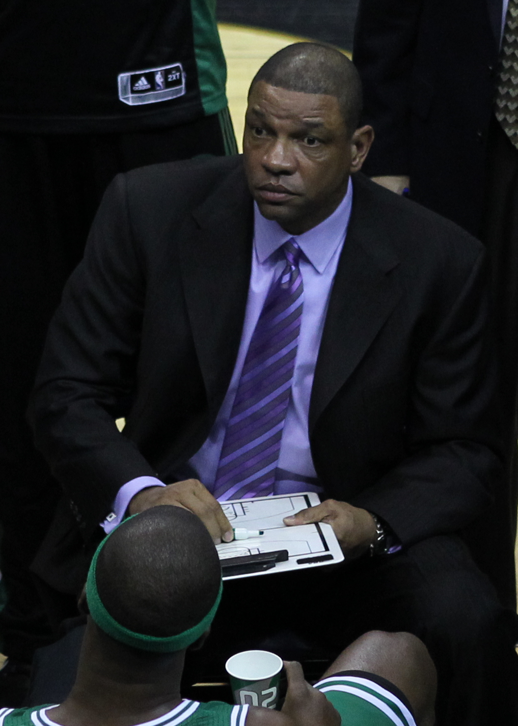 Boston Celtics v/s Washington Wizards April 11, 2011